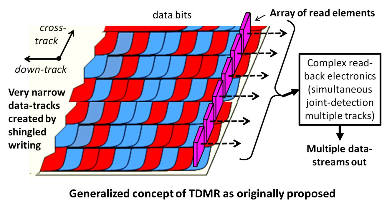 Two-Dimensional Magnetic Recording (TDMR) is a technology for achieving higher areal densities in magnetic recording (esp. HDDs)